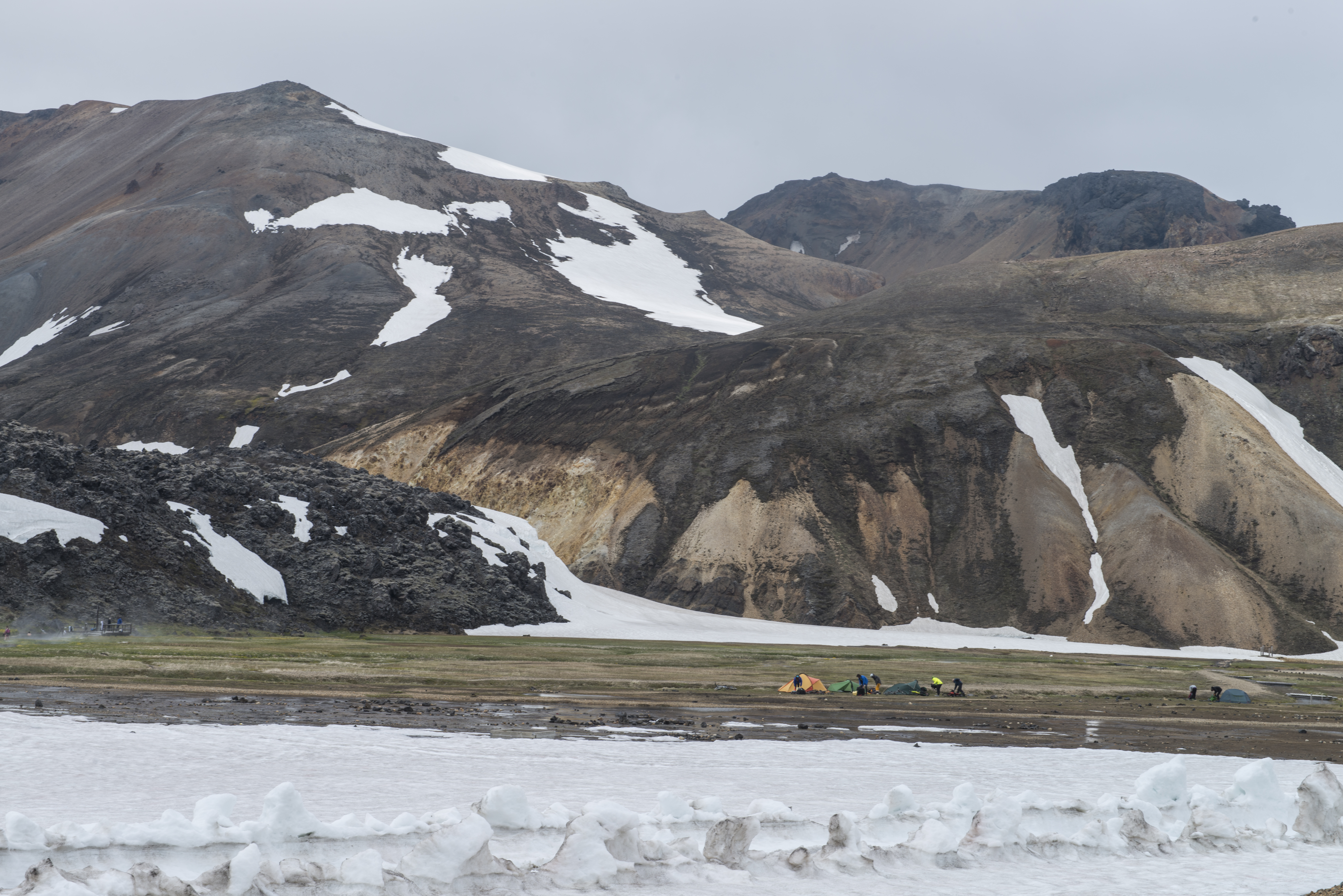 The campsite that sits in the Landmannalaugar valley.